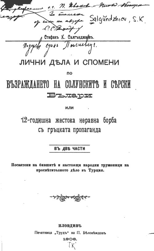 Lichni Dela i Spomeni